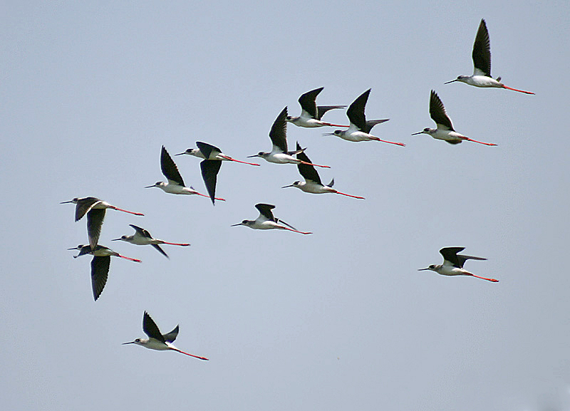 Black-winged Stilts Himantopus himantopus in Kolkata, West Bengal, India.